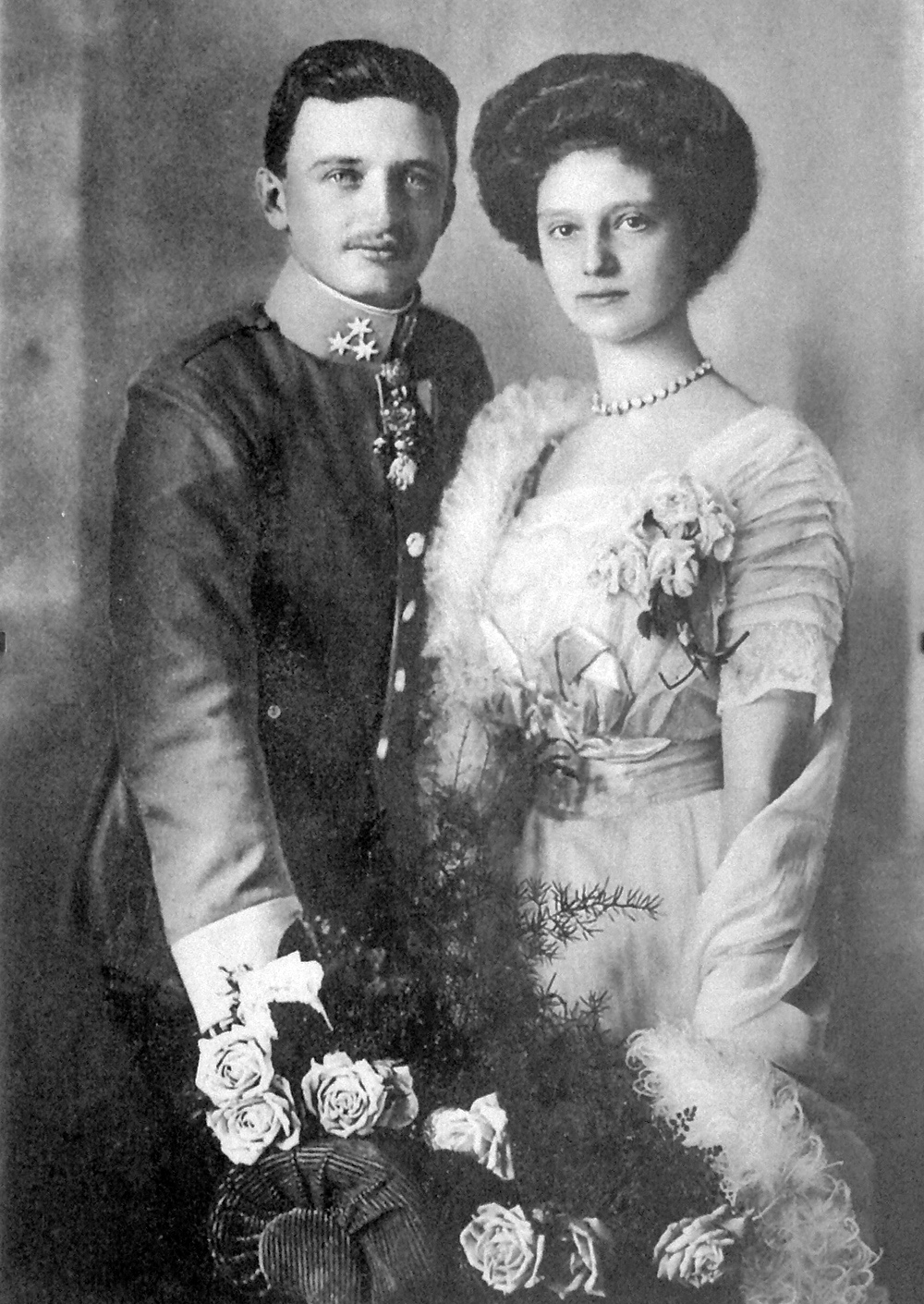 Charles of Austria-Este and Zita of Bourbon-Parma